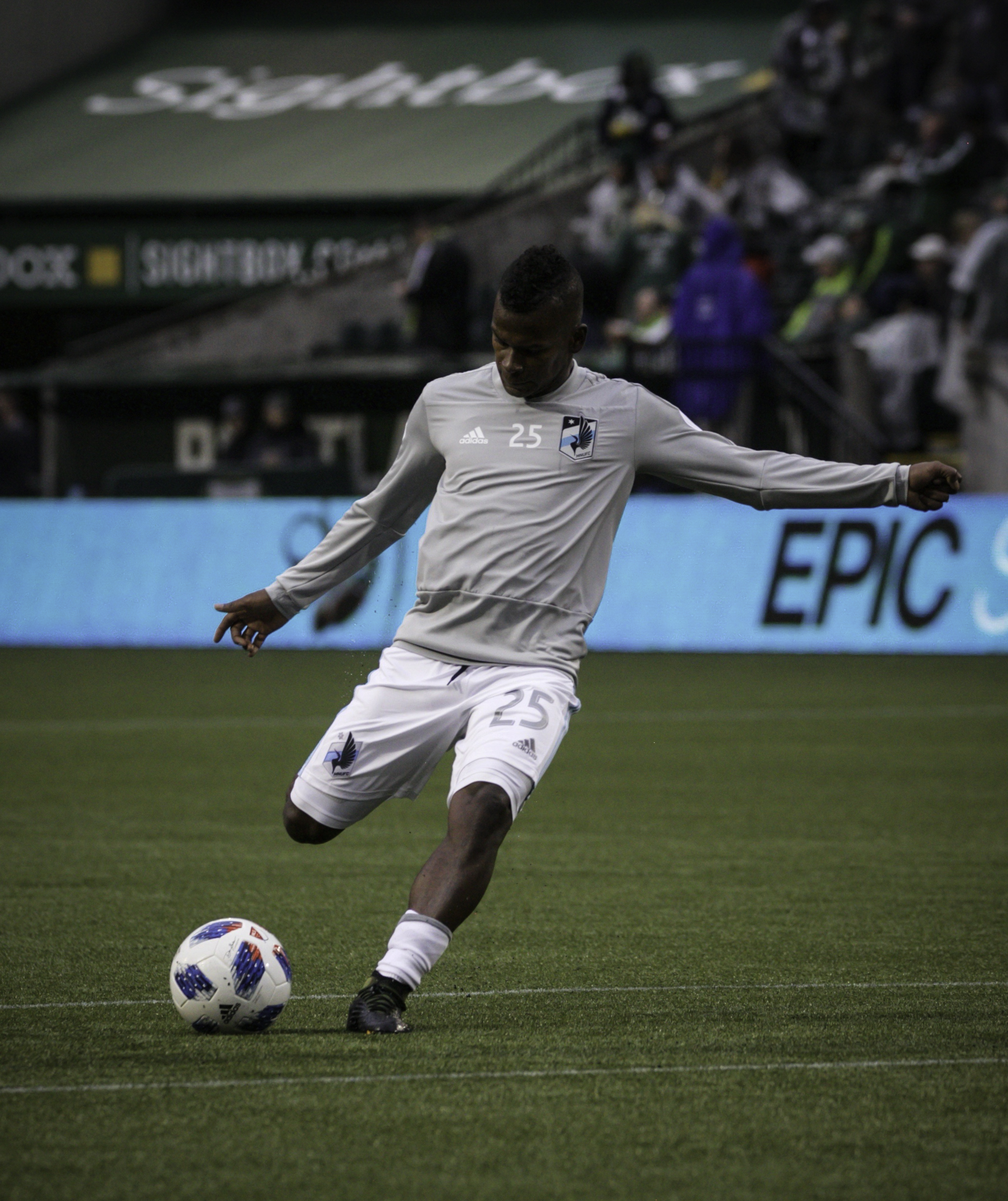 Carlos Darwin Quintero